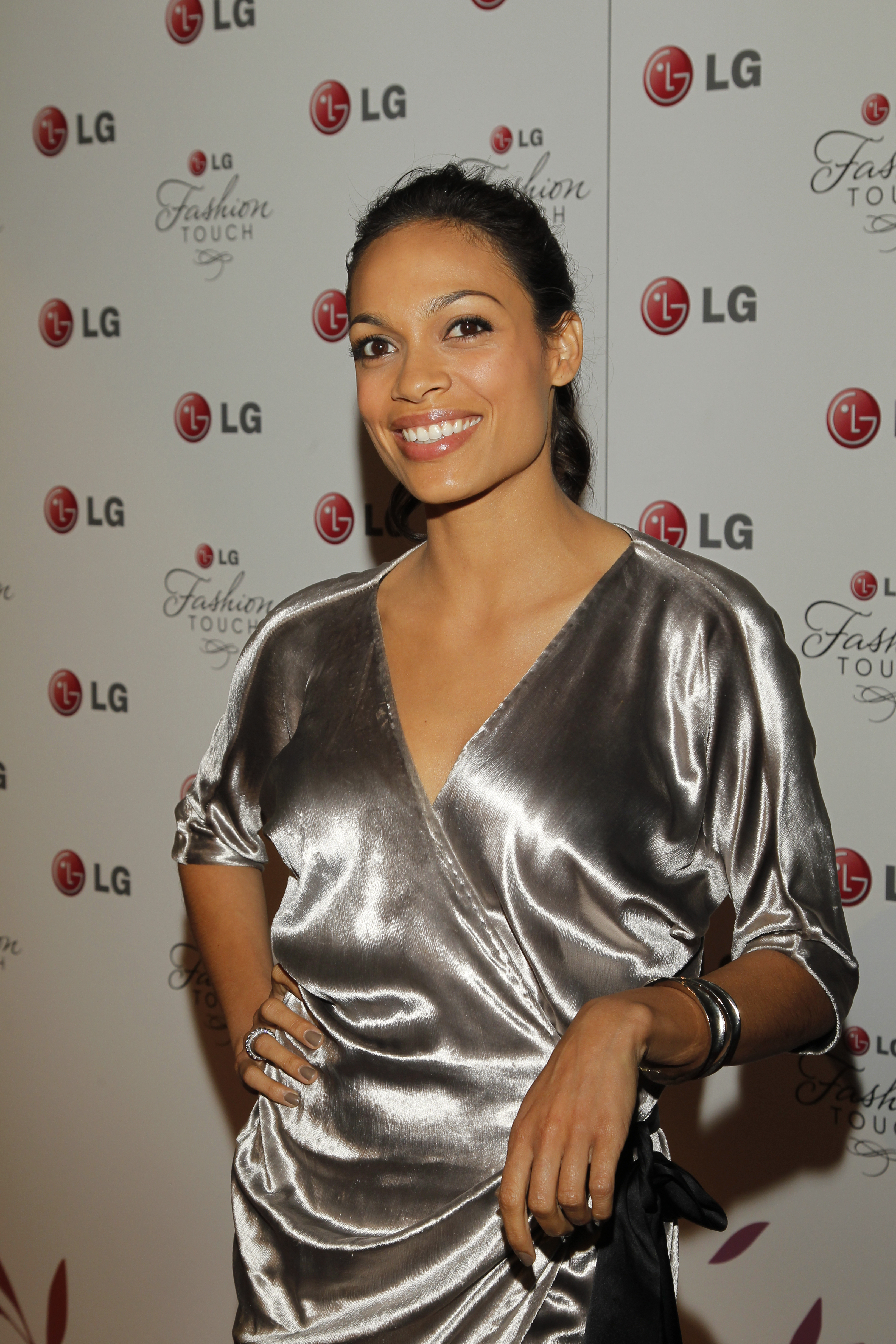 Actress Rosario Dawson In May 24, 2010